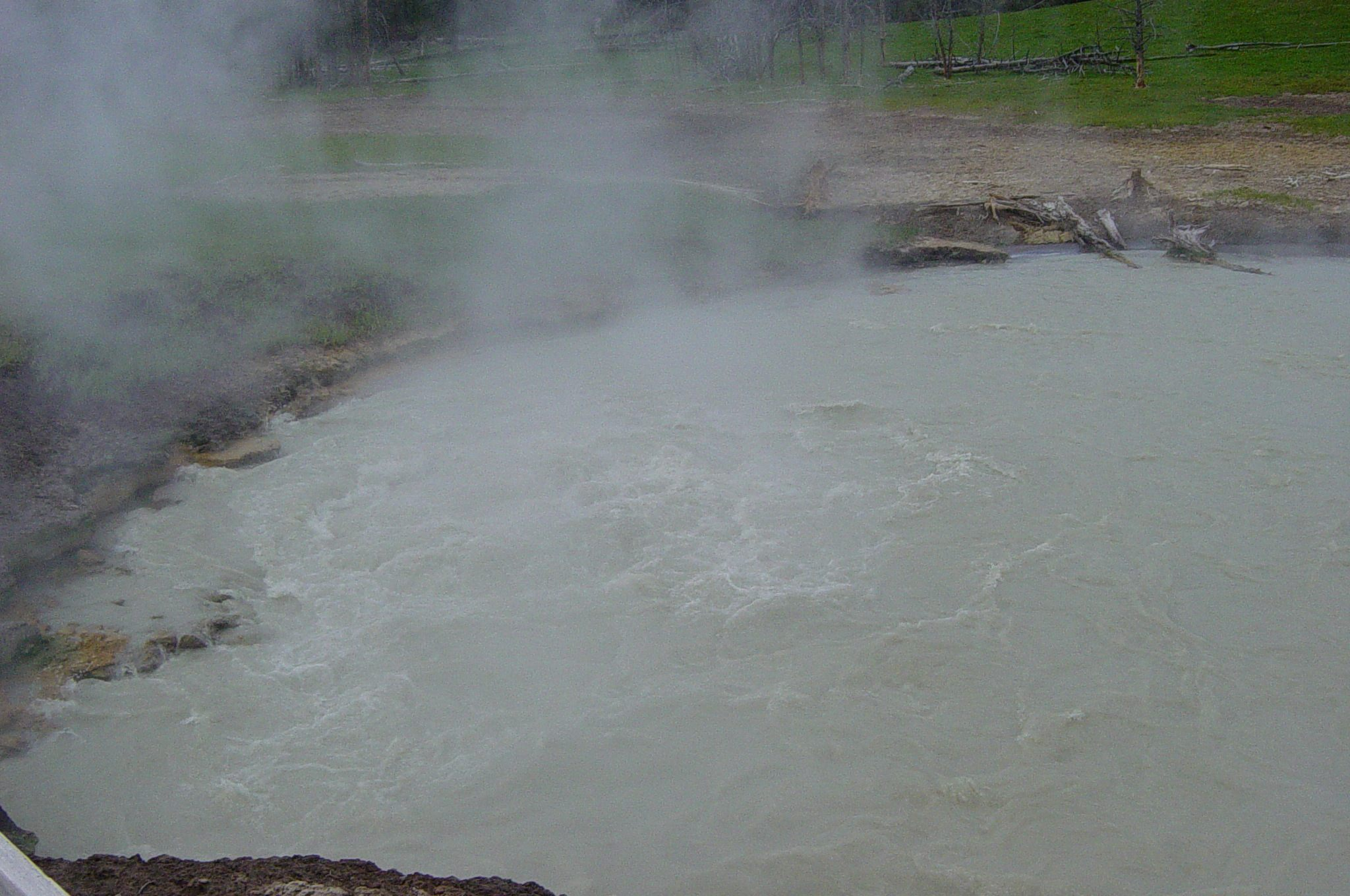 Photo taken in the Yellowstone area.